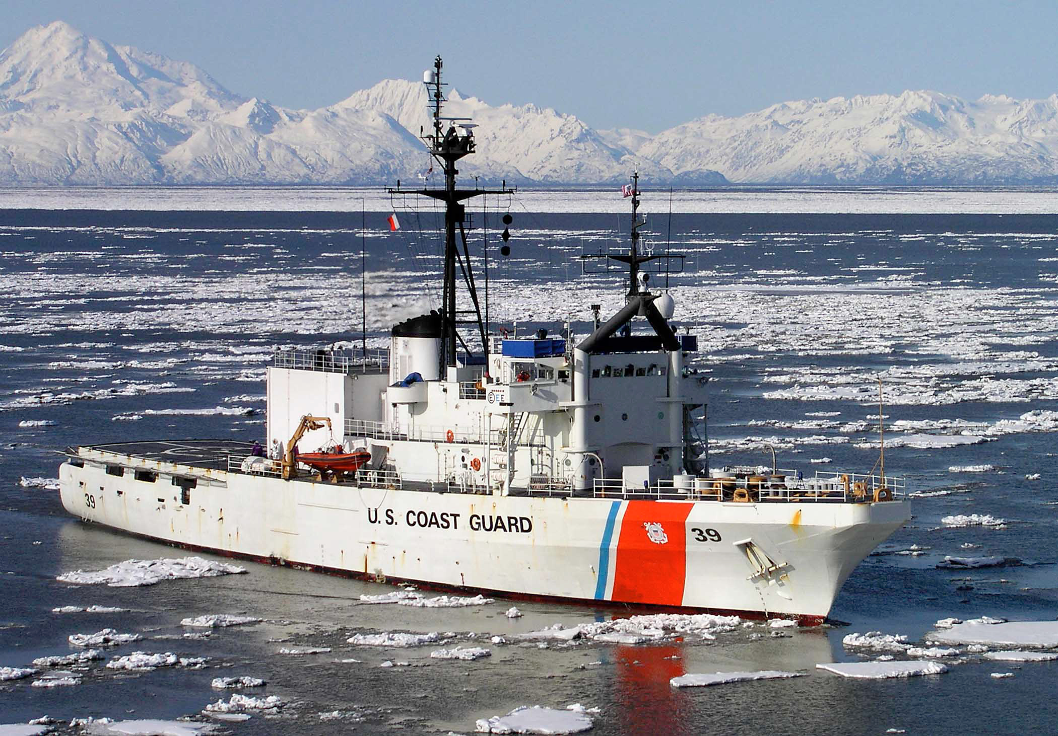 COOK INLET, NIKISTI (May 2, 2003)--The U.S. Coast Guard Cutter Alex Haley is seen underway in brash ice Friday morning in Cook Inlet near Nikiski while conducting a Maritime Homeland Security Patrol. The Haley was directed to go to sea last week only six days after returning from a month-long Enforcement of Laws and Treaties Patrol in the Bering Sea. The Haley will be on patrol for an undisclosed length of time and will provide maritime security for Cook Inlet oil platforms, the Nikiski liquified natural gas terminal in addition to the pipeline terminal in Valdez and patrolling Prince William Sound. The Haley was directed to sea in response to the US invasion of Iraq and the elevation of the national terror alert system to Orange. The 283 foot-long, 3000 ton Haley and its 100 crewmembers are homeported in Kodiak. The Haley is a one of a kind vessel -- it was a Navy open ocean salvage vessel before being modified and is named after the Coast Guards first journalist and "Roots" author Alex P. Haley. Photo by Mark Farmer